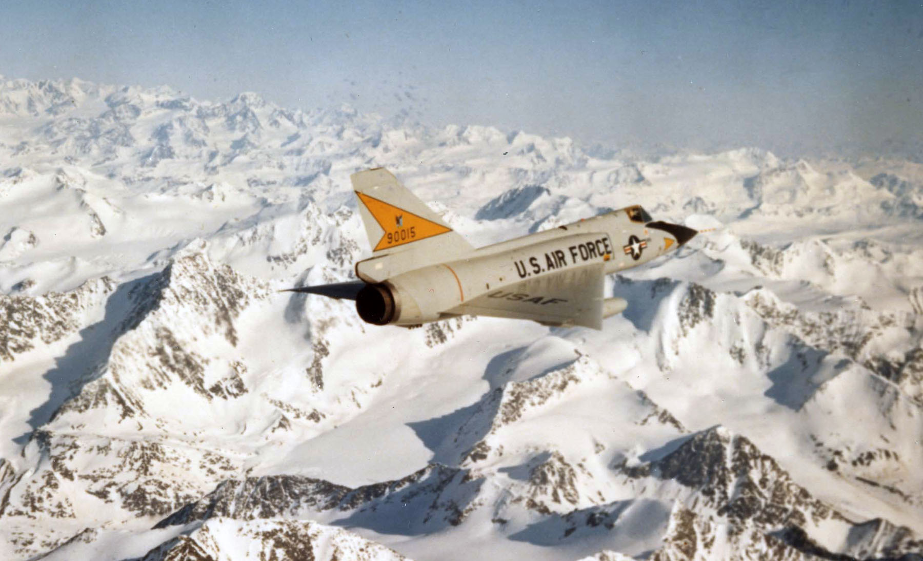 A U.S. Air Force Convair F-106A-105-CO Delta Dart (s/n 59-0015) of the 21st Composite Wing, Elmendorf Air Force Base, Alaska (USA), in March 1967.